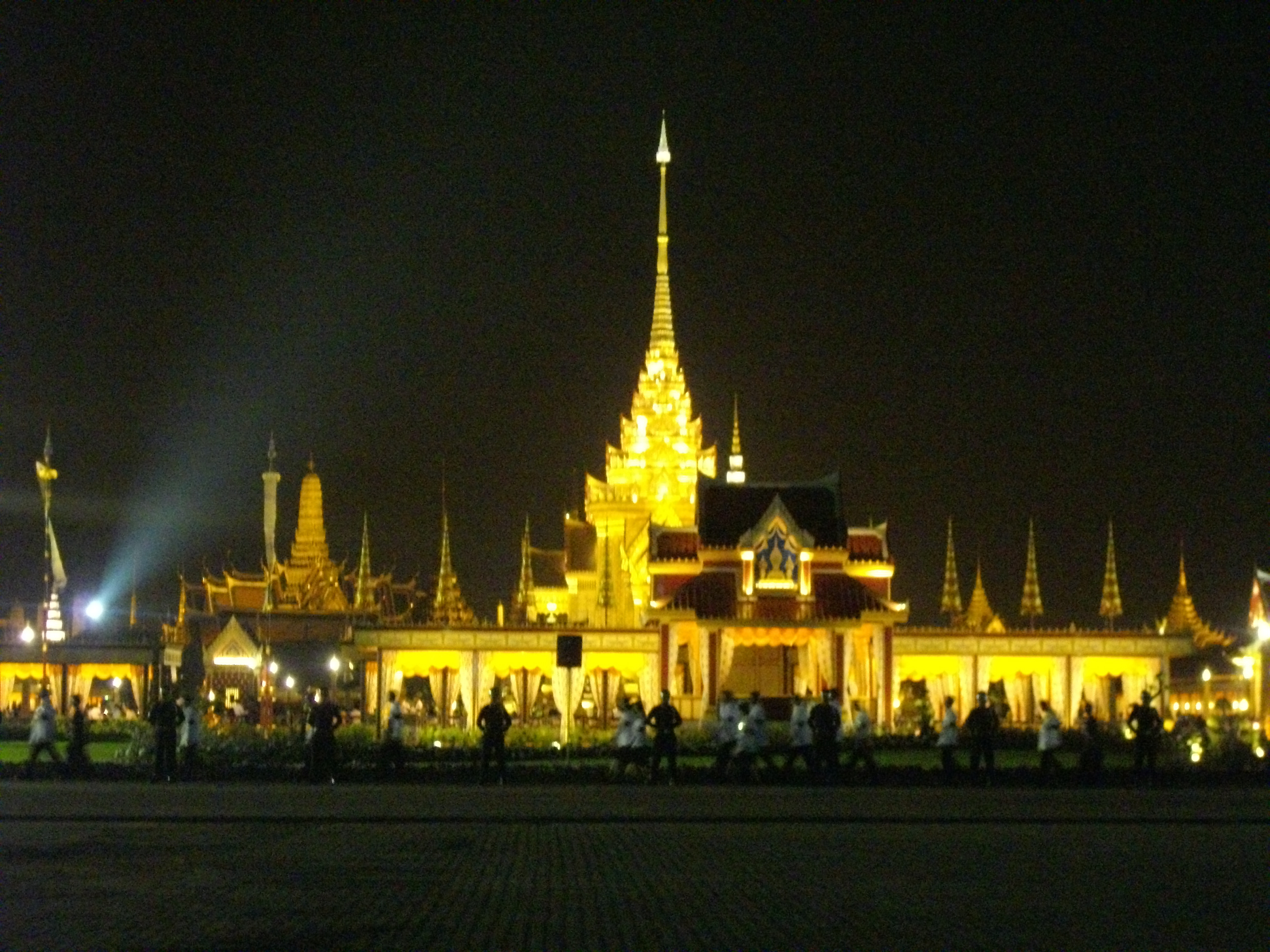 The Royal Crematorium ("Phra Meru") at Sanam Luang (night time, view from north side) which was used in the Royal Cremation of Her Royal Highness Princess Galyani Vadhana, King Rama IX's Sister, in 15 November 2008.